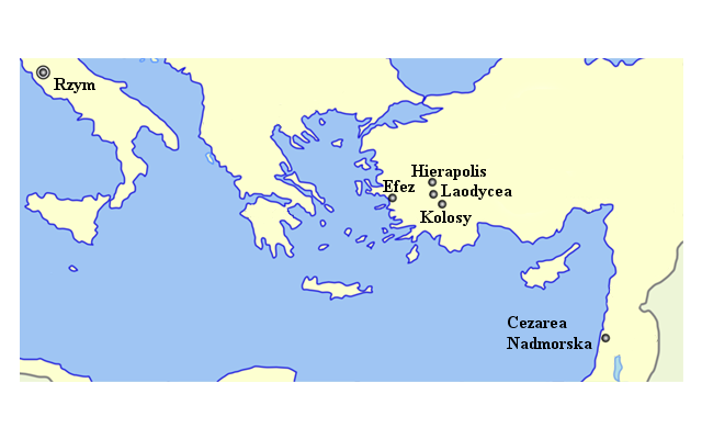 Map of Epistle to Philemon